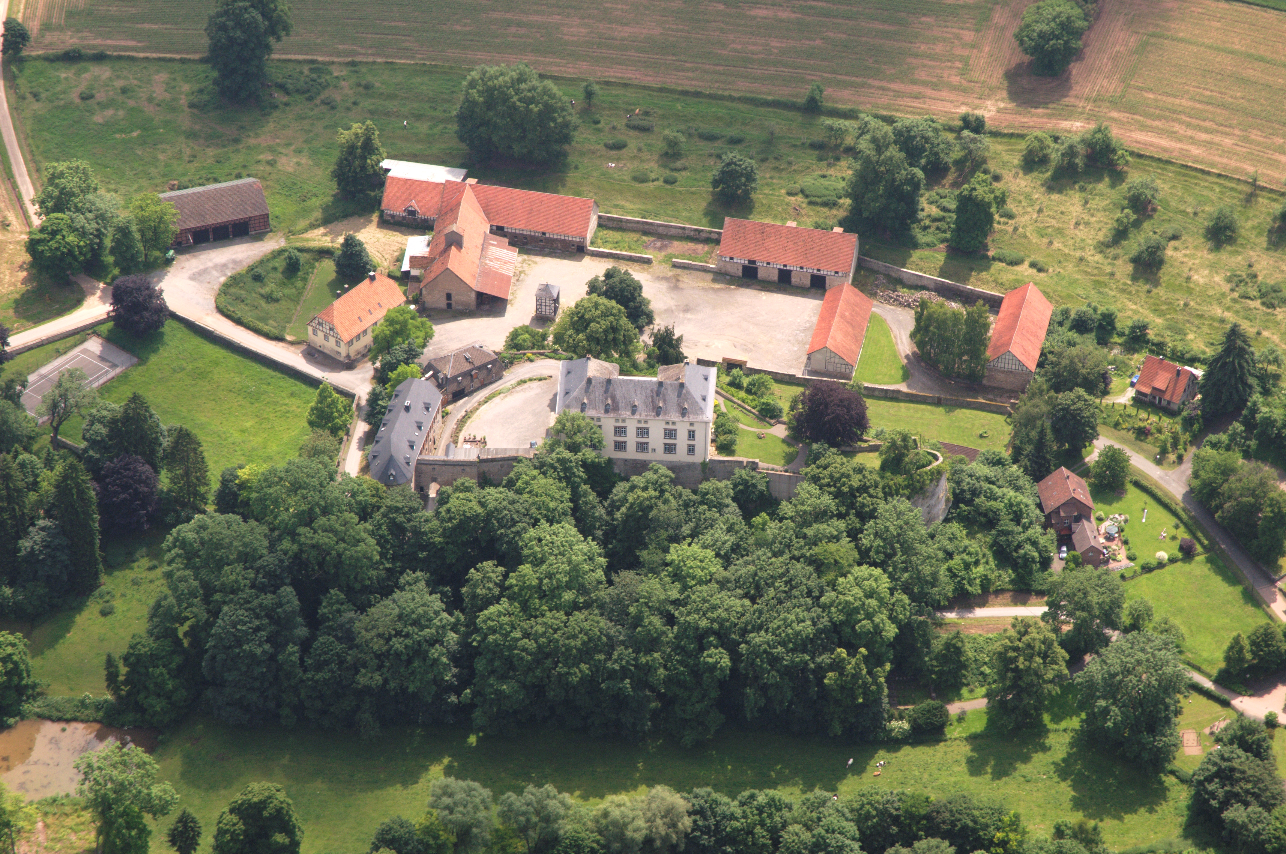 Fotofug Sauerland-Ost - Marsberg-Canstein, Schloss Canstein The making of this document was supported by the Community-Budget of Wikimedia Germany.